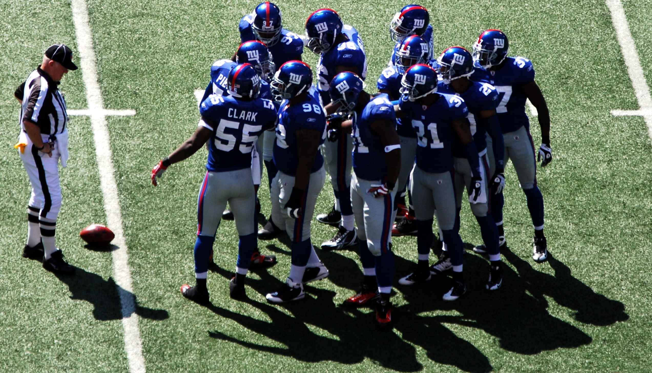 The New York Giants in a December 2008 game against the Cincinnati Bengals.